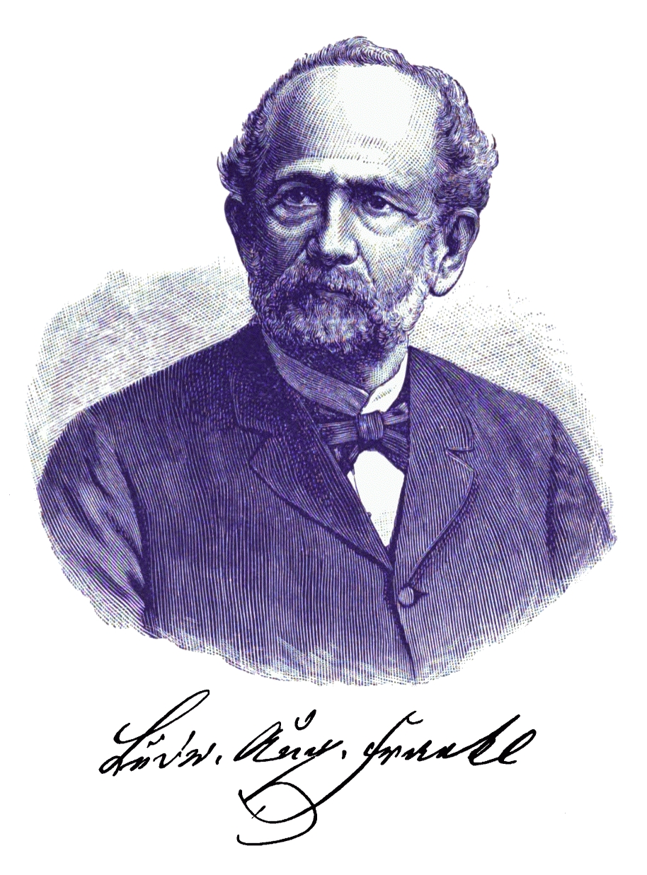 Ludwig August Frankl (1810-1894), Austrian physician, journalist, writer and poet